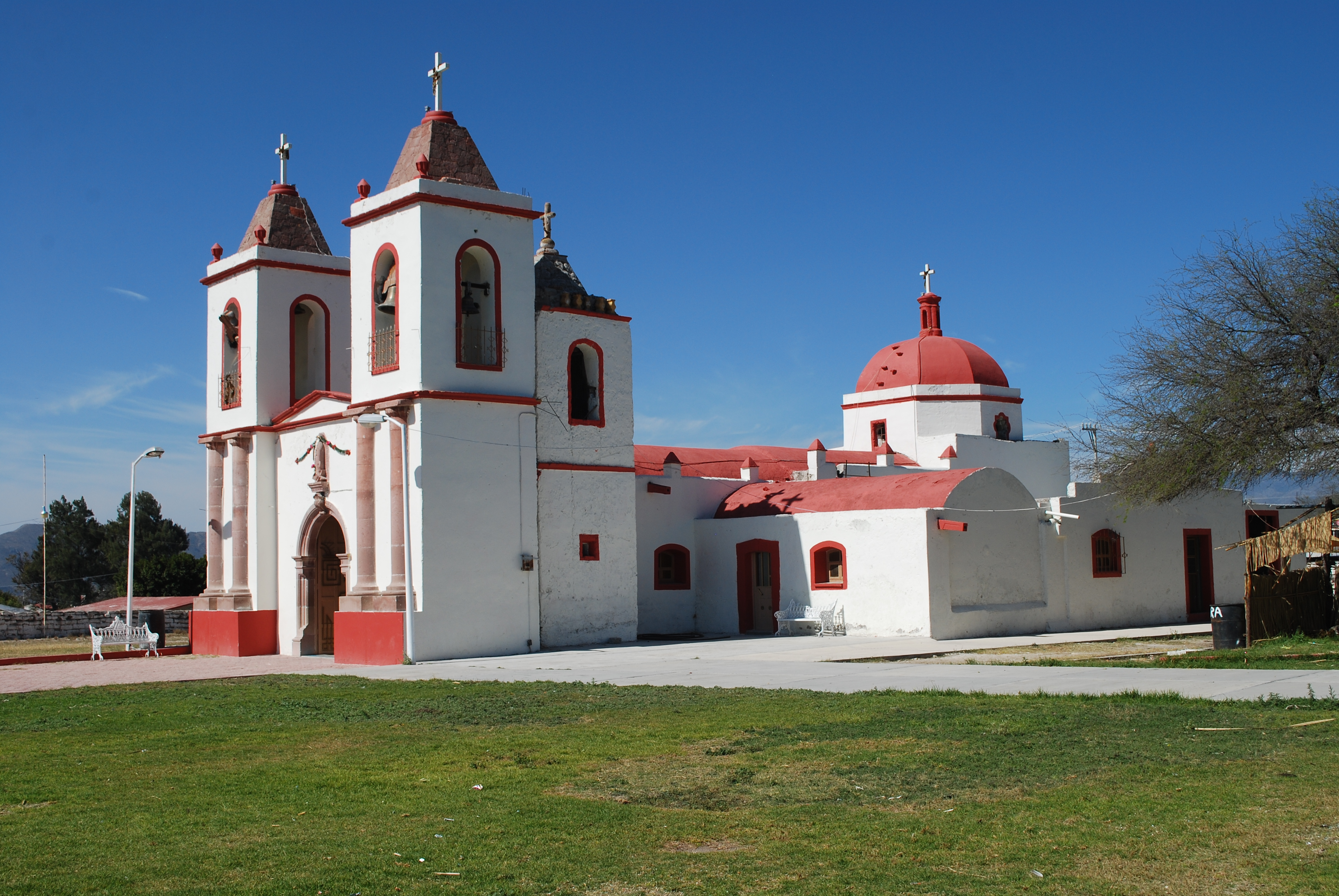 Parish church of El Nith, Ixmiquilpan, Hidalgo, Mexico